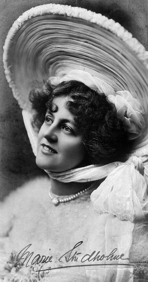 Marie Studholme (1875-1930), star of Victorian and Edwardian musical comedy